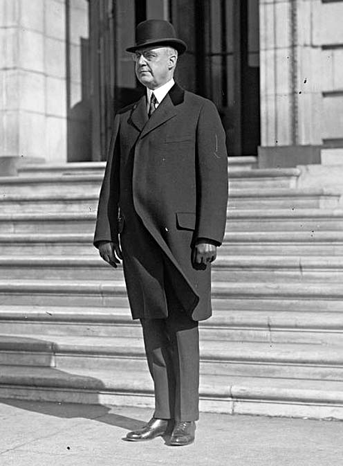 Photograph of Robert B. Howell (1864–1933), a U.S. Senator from Nebraska